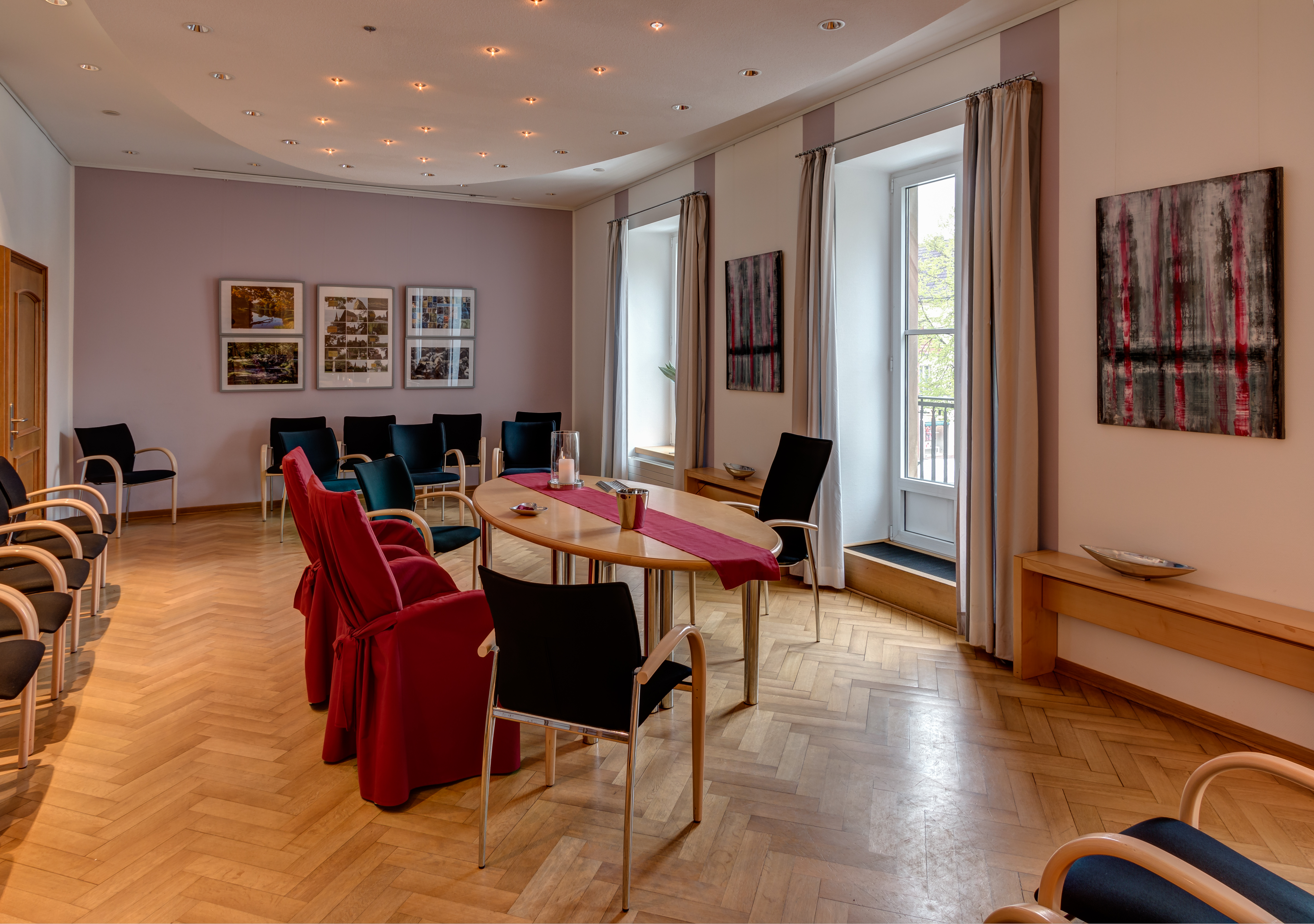 Wedding room in the town hall, Dülmen, North Rhine-Westphalia, Germany This image shows a heritage building in Germany, located in the North Rhine-Westphalian city Dülmen (no. 126).